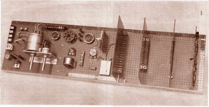 1961 VEROBOARD Assembly